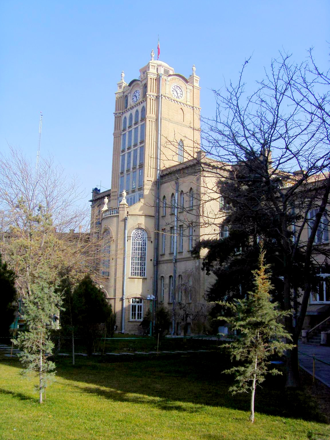 Tabriz city hall, Iran